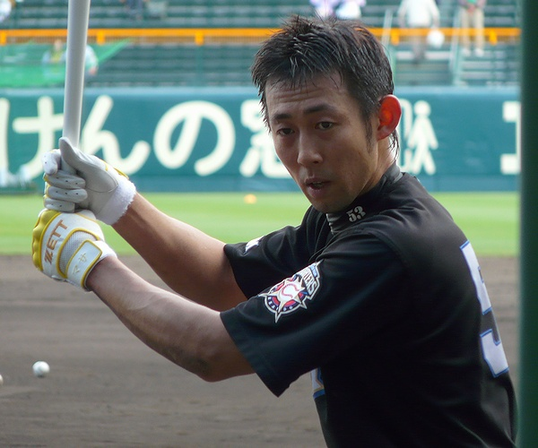 NF-Masaya-Ozaki20100513